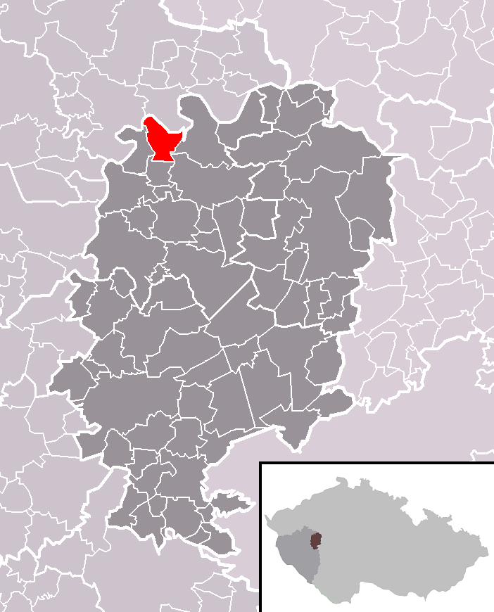 Location of Bujesily municipality within Rokycany District and within identical administrative area of Rokycany as a Municipality with Extended Competence.